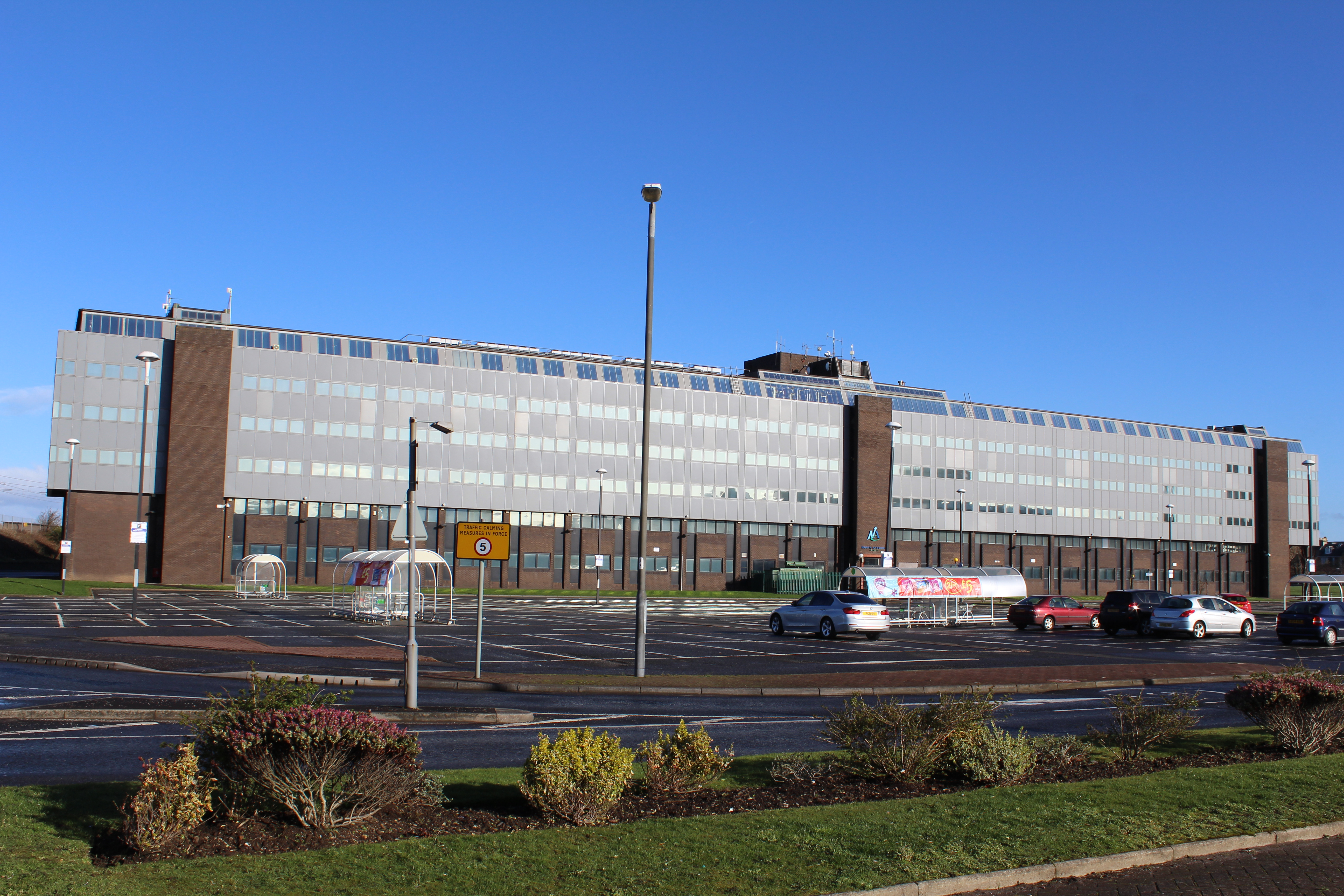 Cunninghame House, Irvine is the headquarters of North Ayrshire Council